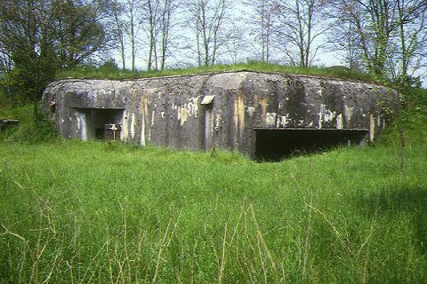 Back frontage at the Casemate of Rountzenheim South